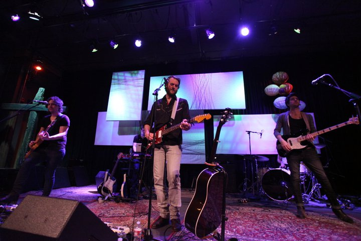 The worship team at Rock Harbor Church Costa Mesa, USA.